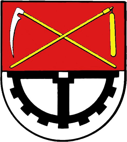 Coat of arms of the Stadt (town) Büdelsdorf in Schleswig-Holstein, Germany.